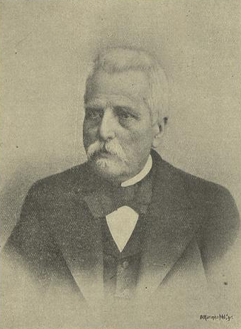 António Maria da Luz de Carvalho Daun e Lorena, 5th Count of Redinha (1822-1905)